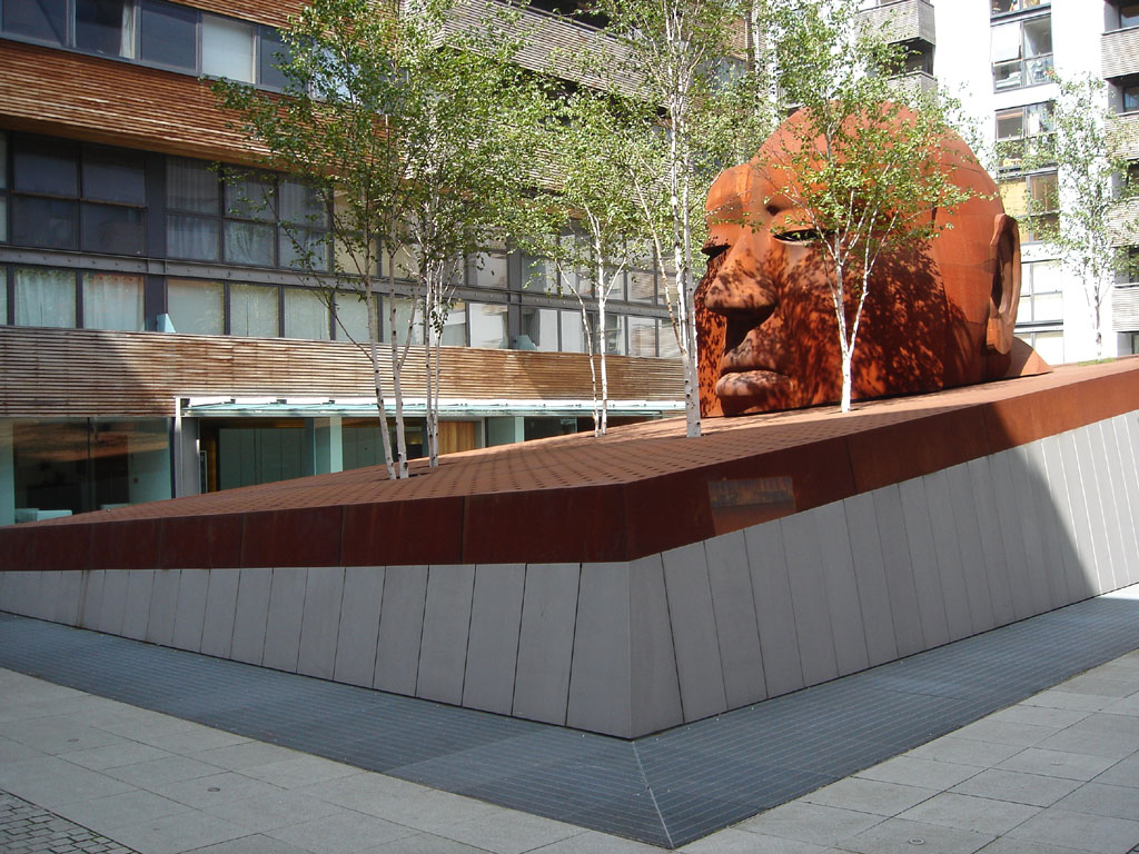 Around Poole Street at the top of Shoreditch Park